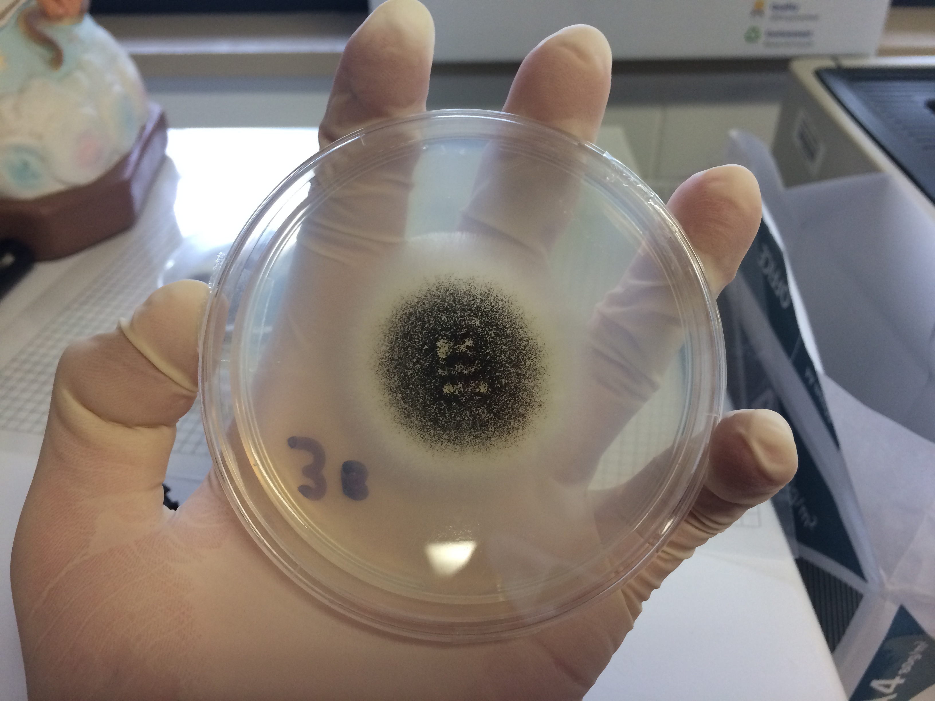 An Aspergillus niger colony growing at 25 degrees Celsius on Potato dextrose agar 3 days after inoculation